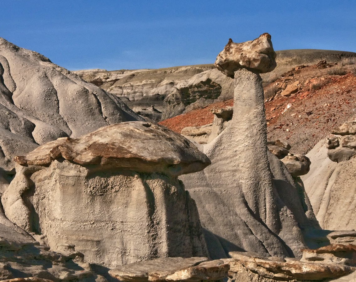 'The Sphinx' mushroom rock. In the Bisti Badlands — De-Na-Zin Wilderness Area. Northwestern New Mexico.